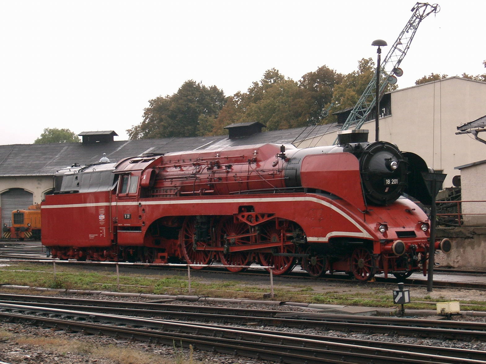 German high-speed steam locomotive, number 18 201, on 25.09.2004 at the former Nossen locomotive depot in red livery